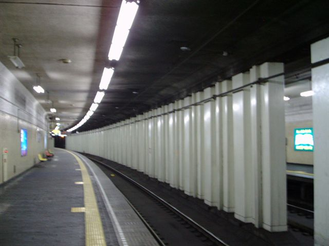 Platform of Kobe Rapid Transit Kosoku-Nagata Station